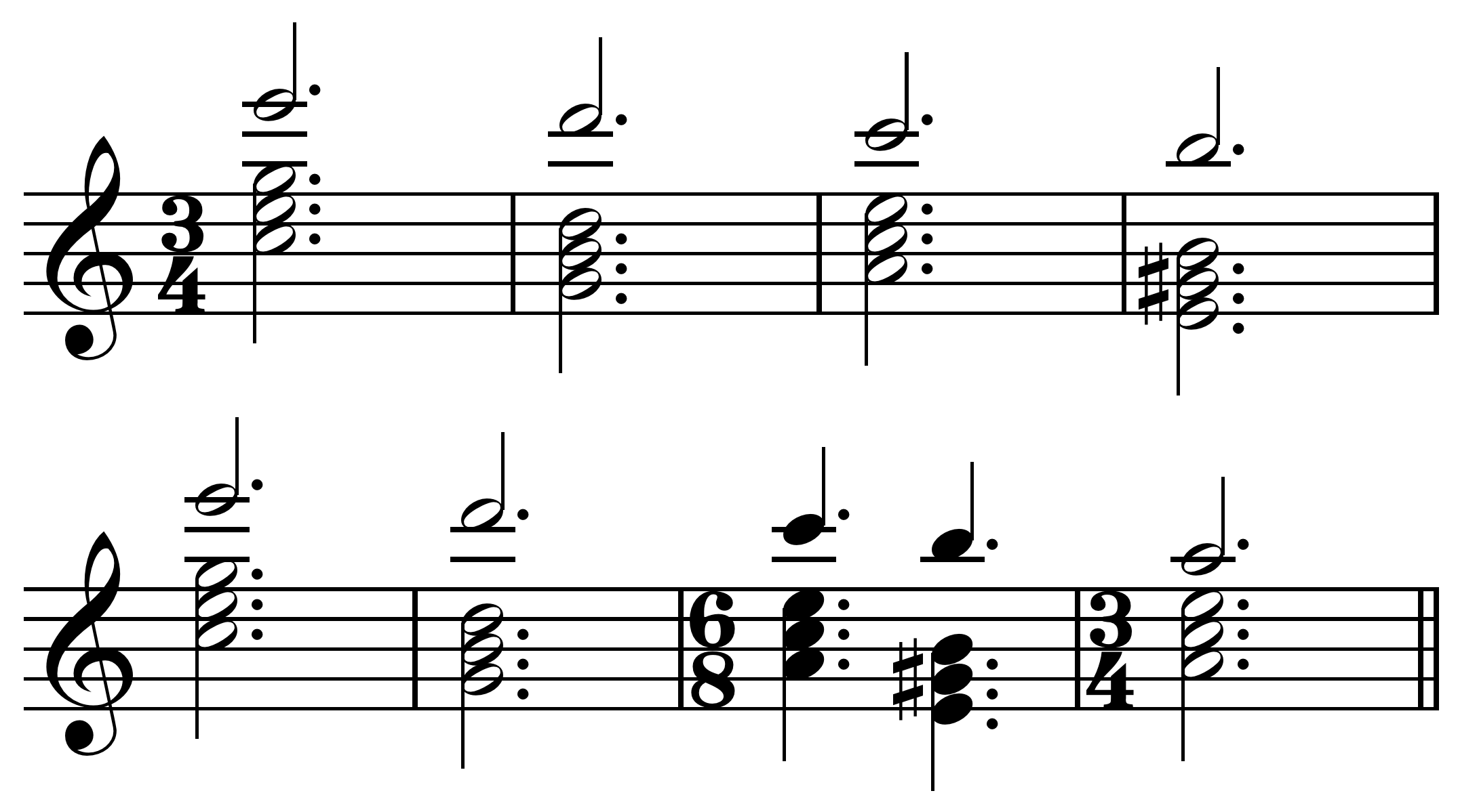 Created by Hyacinth (talk) 21:12, 13 July 2010 using Sibelius 5. Romanesca chord progression.